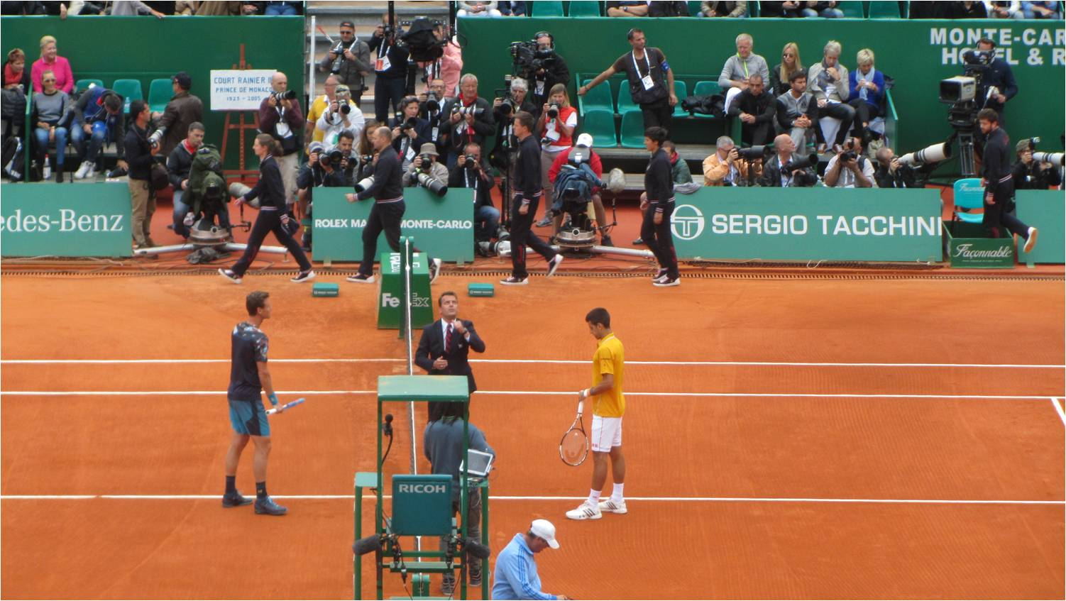 Novak Djokovic and Tomáš Berdych final Monte Carlo 2015